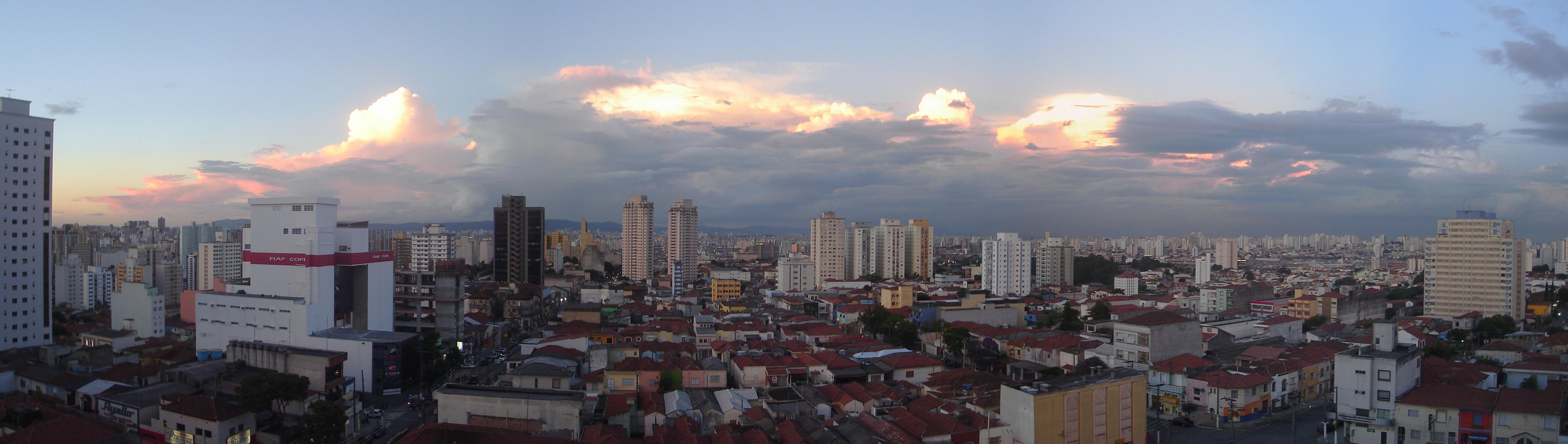 Panoramic Photo from Cambuci District showing several spots of the Northeast region of São Paulo city